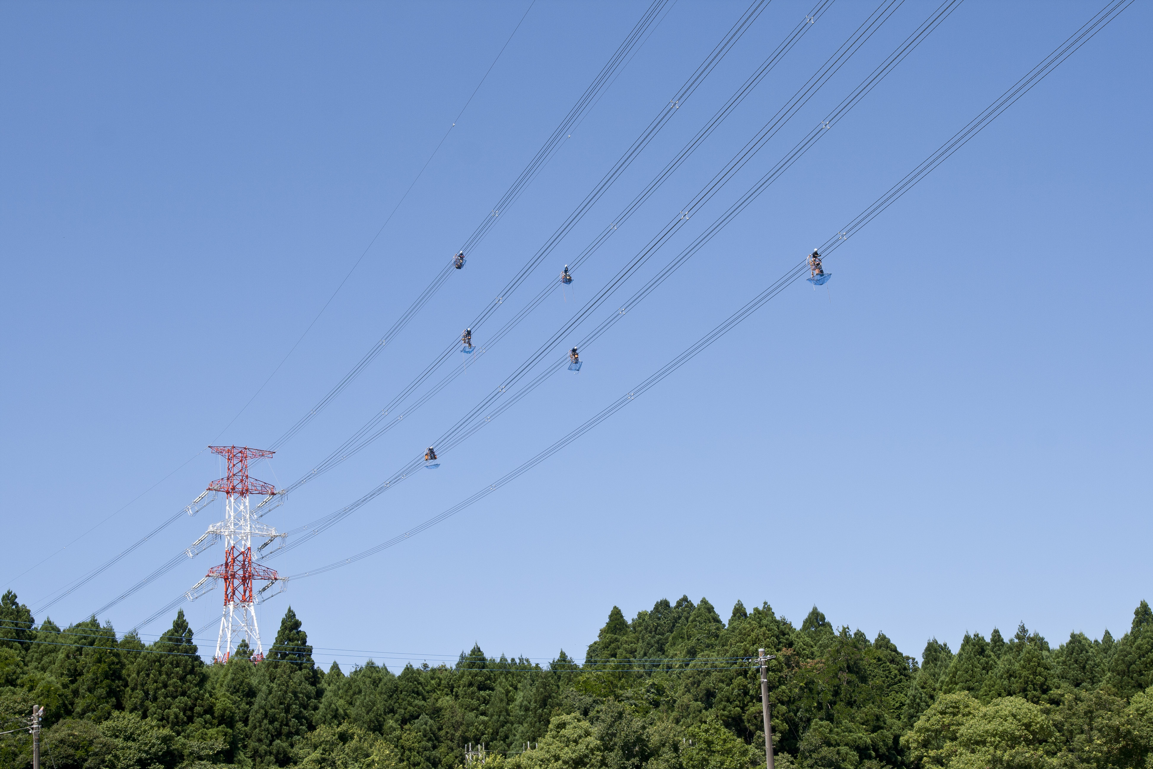 Katori Power Line (275 kV electric power line), Katori City, Chiba Pref., Japan